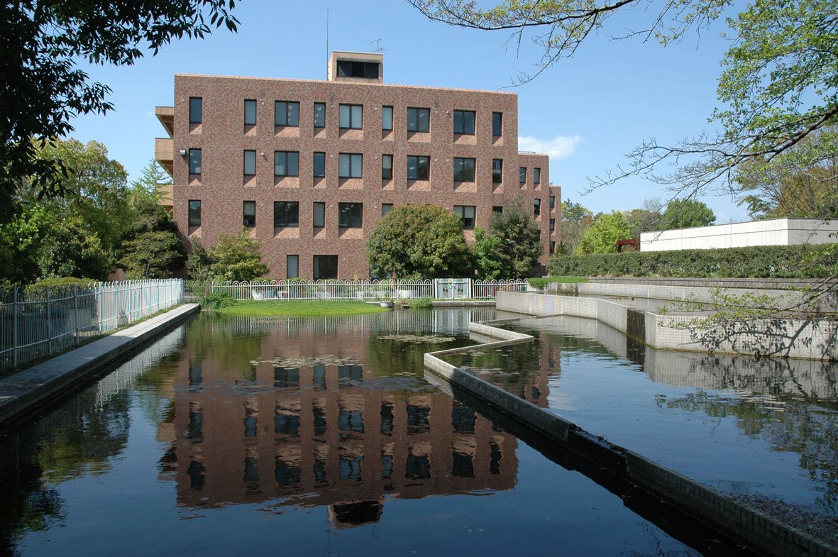 Picture of the front entrance of NIBB, National Institute for Basic Biology, Japan.